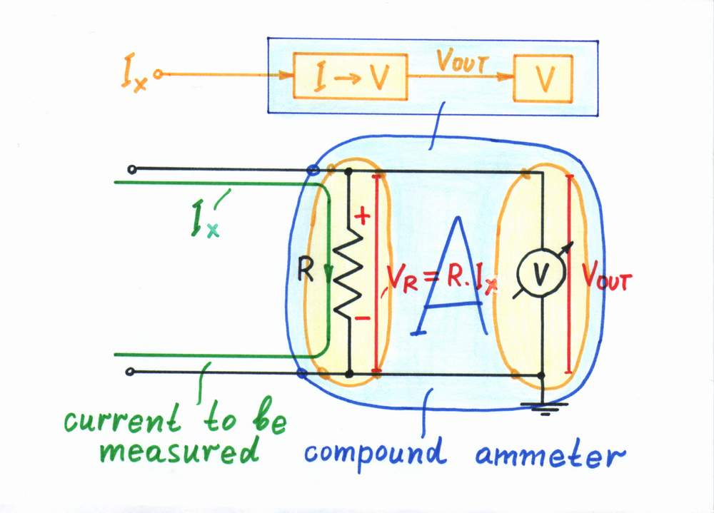 Compound ammeter = I-to-V converter + voltmeter